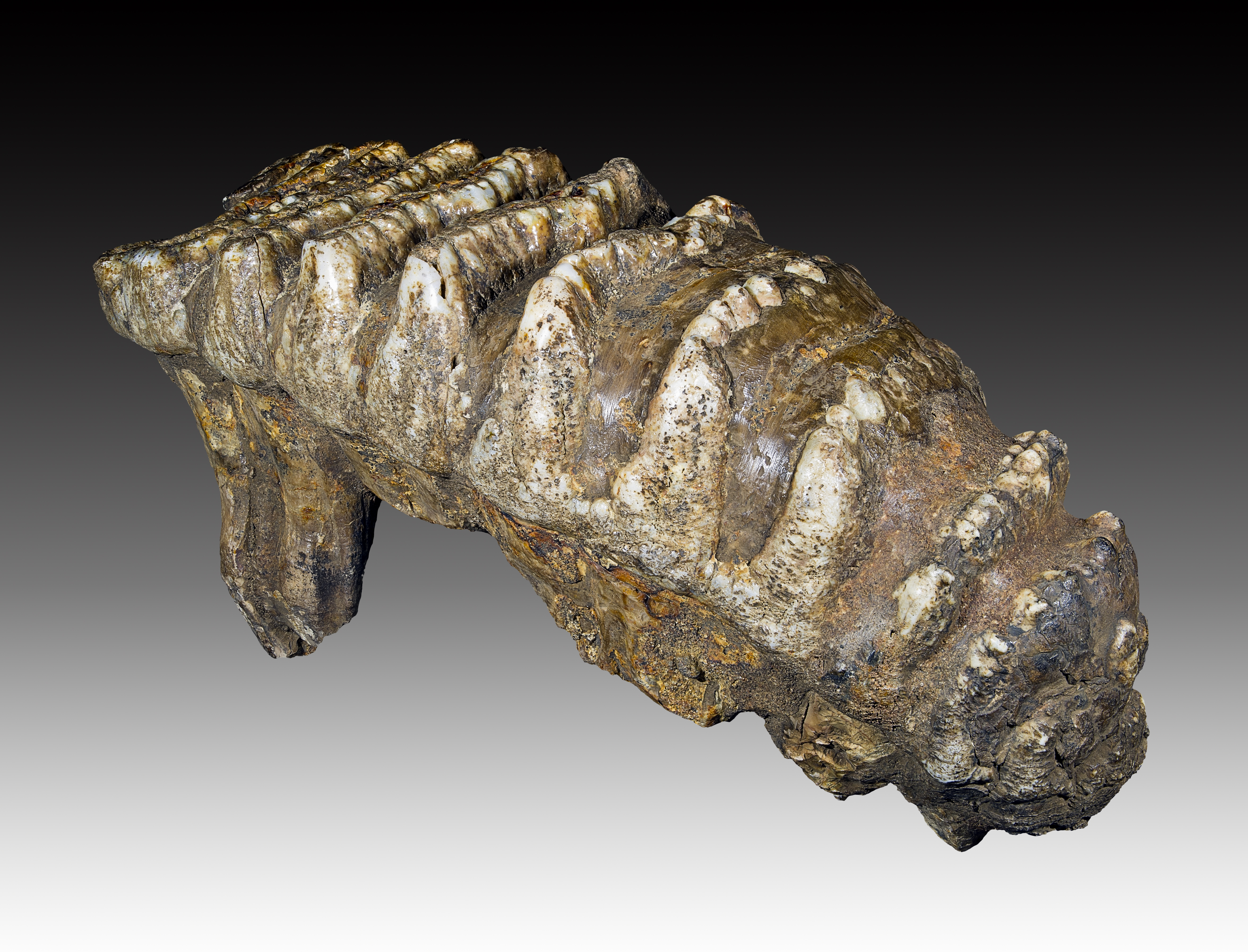 Stegodon trigonocephalus molar Stage : 2.5 million years ago Lower Pleistocene (Gélasian) Locality :Sangiran site on the island of Java in Indonesia Size : 27x1.5x9 cm